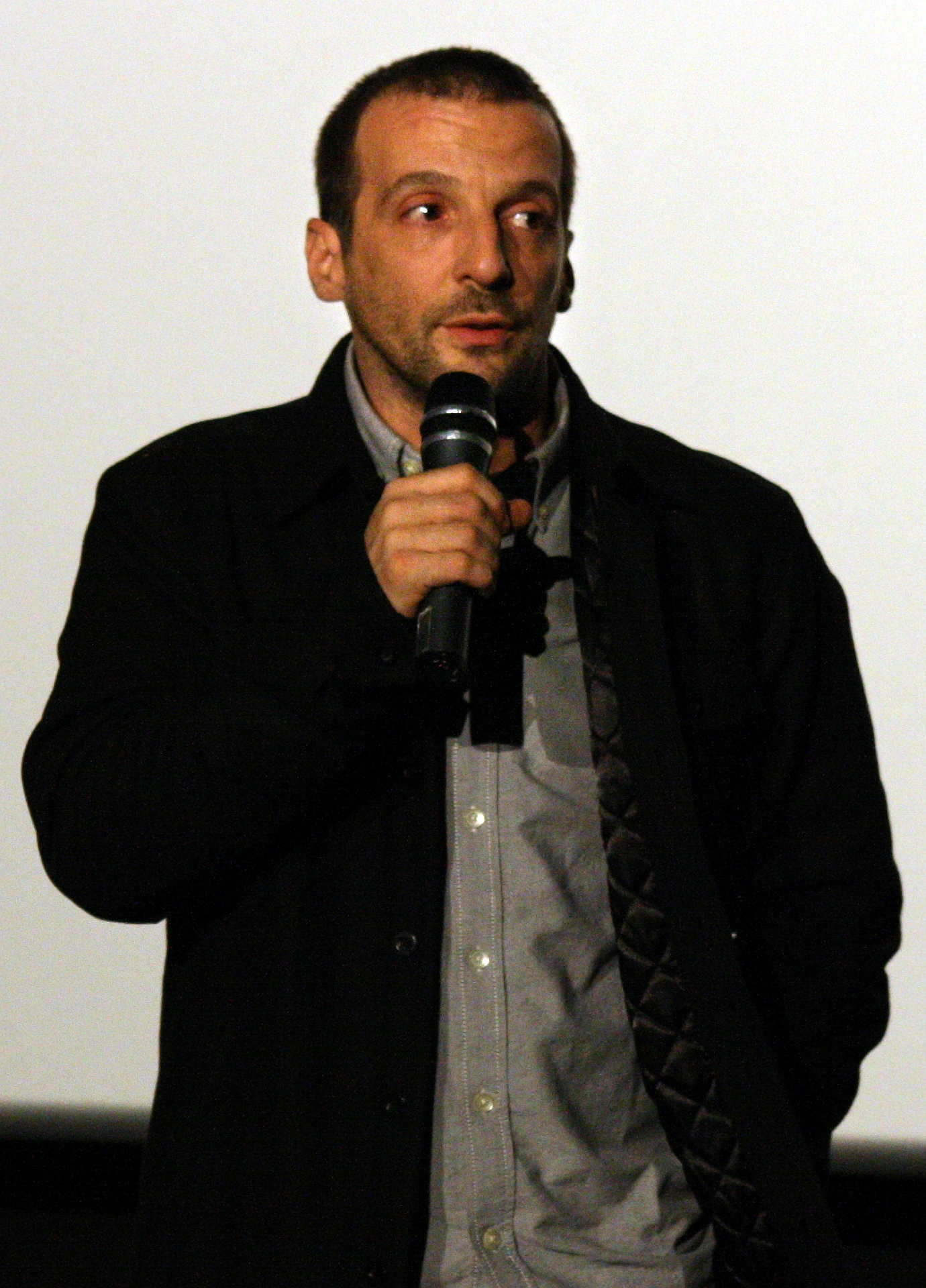 Mathieu Kassovitz, french director, during the preview of the movie L'Ordre et la Morale at the movie theater UGC Cité Ciné SQY in Saint Quentin en Yvelines, France.